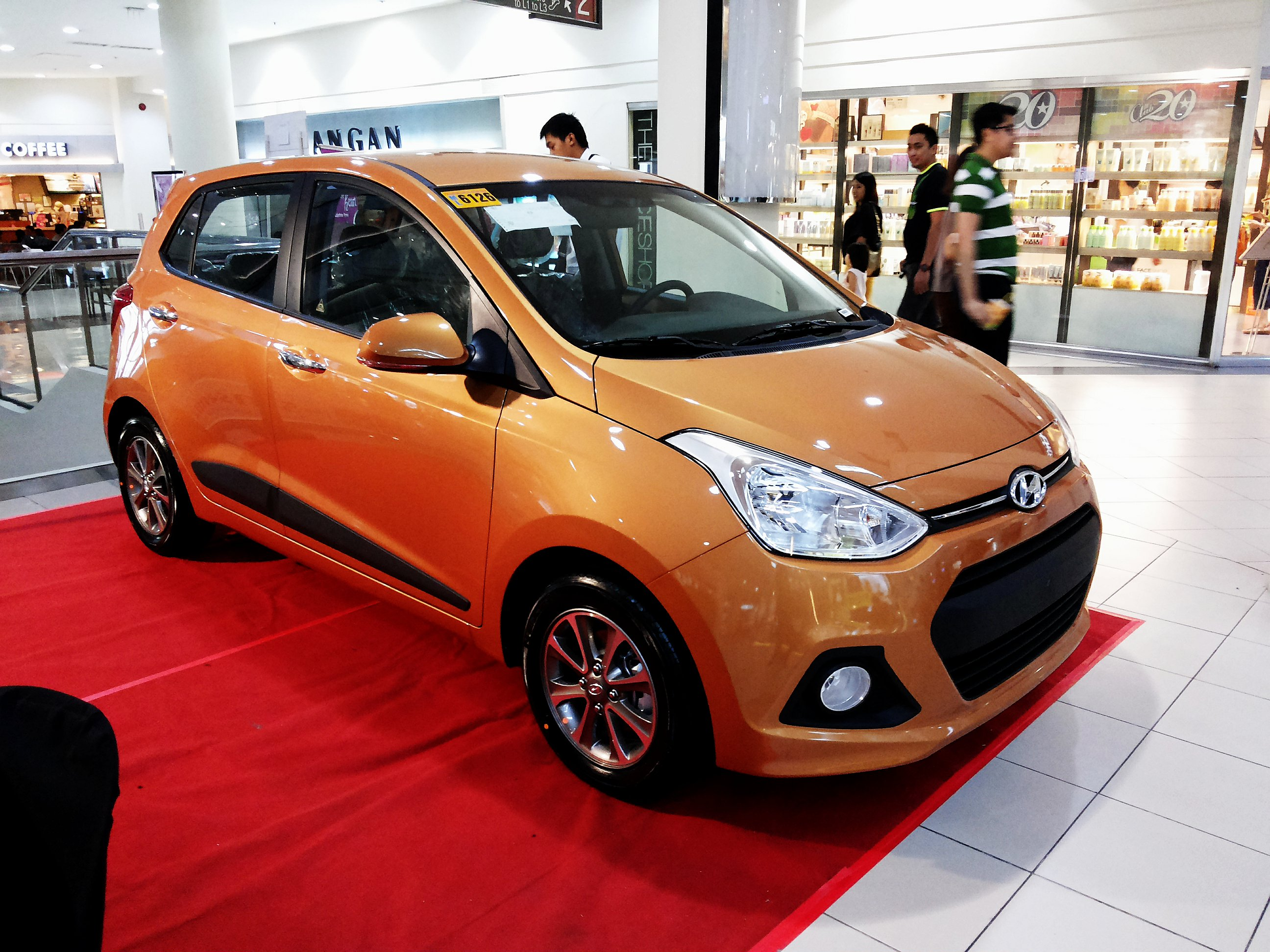 2014 Hyundai Grand i10 1.2 Automatic (Philippine model). Taken at Robinsons Galleria, Quezon City, Philippines.